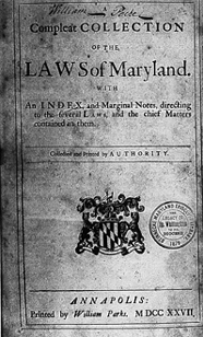 First printing of the Maryland Laws: "A Compleat Collection of the Laws of Maryland." (Annapolis, 1727). (Acts of Assembly, of the Province of Maryland.)